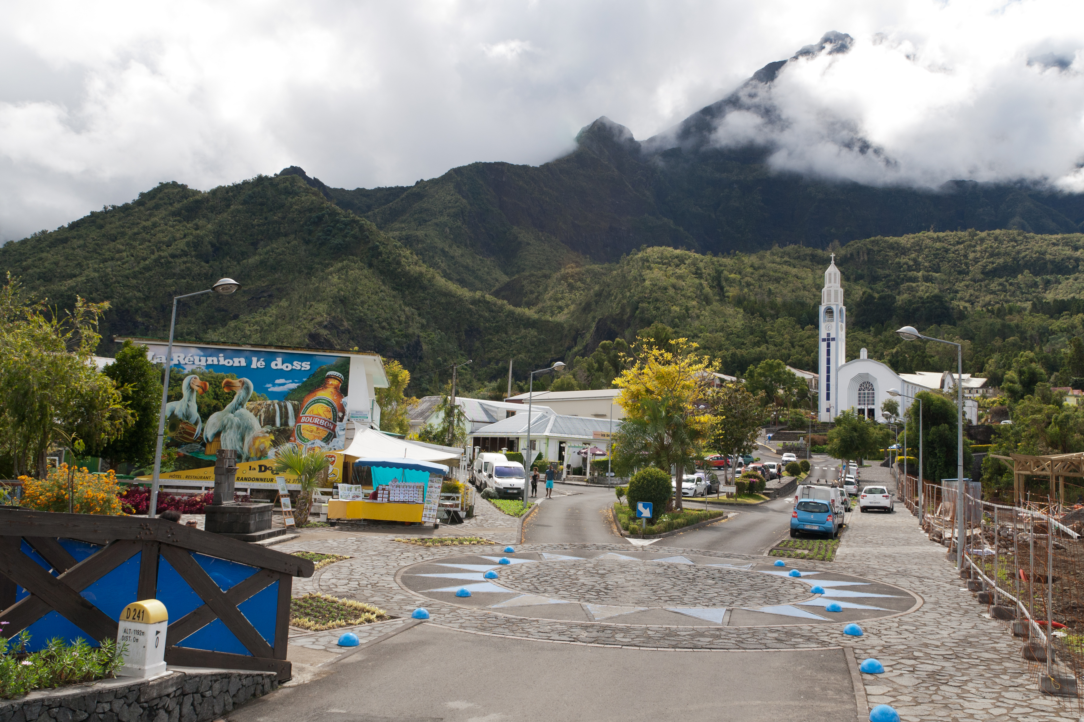 Town of Cilaos, Réunion Island